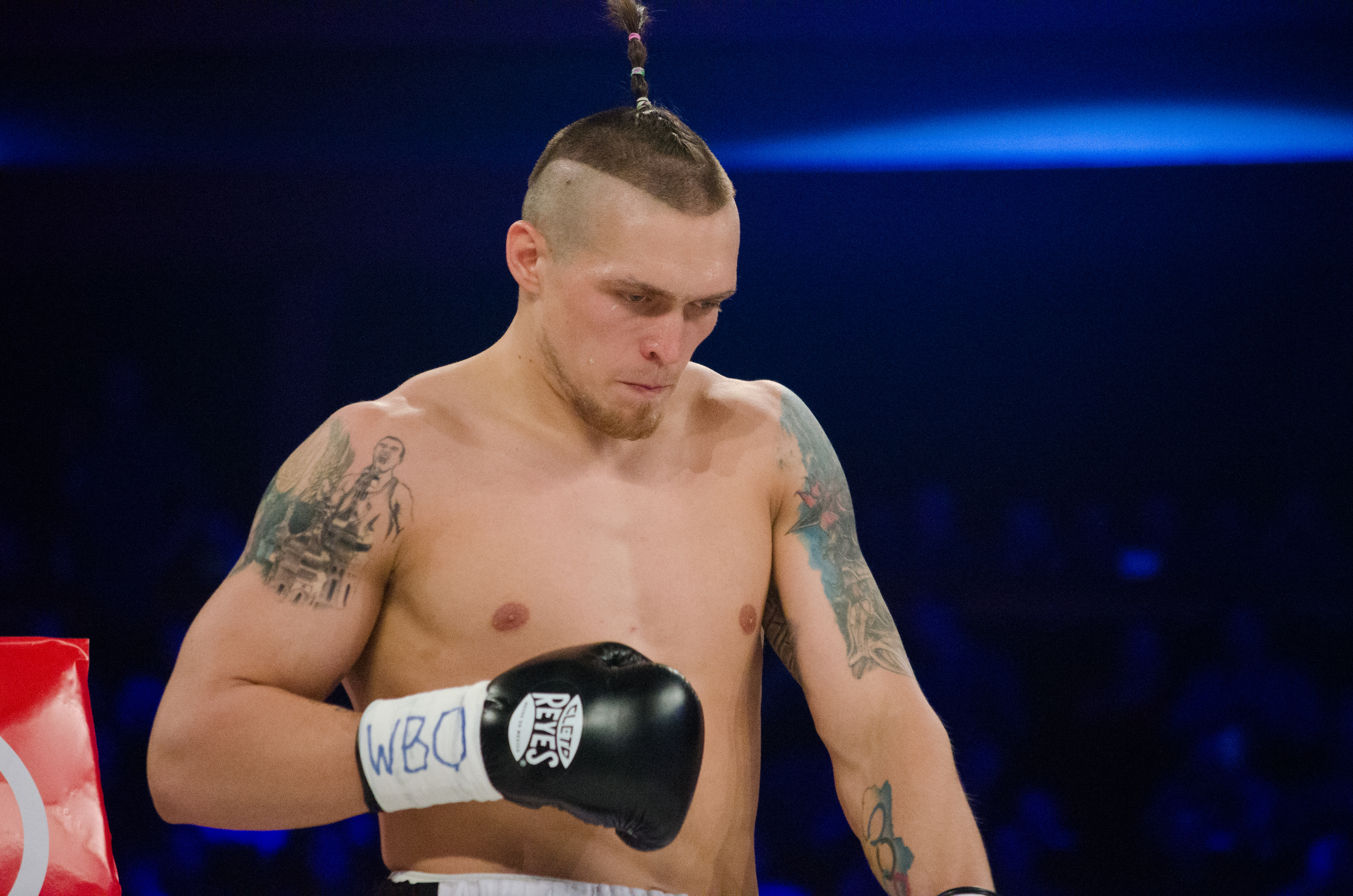 Oleksandr Usyk - Andrey Knyazev boxing fight, Kiev, Ukraine.